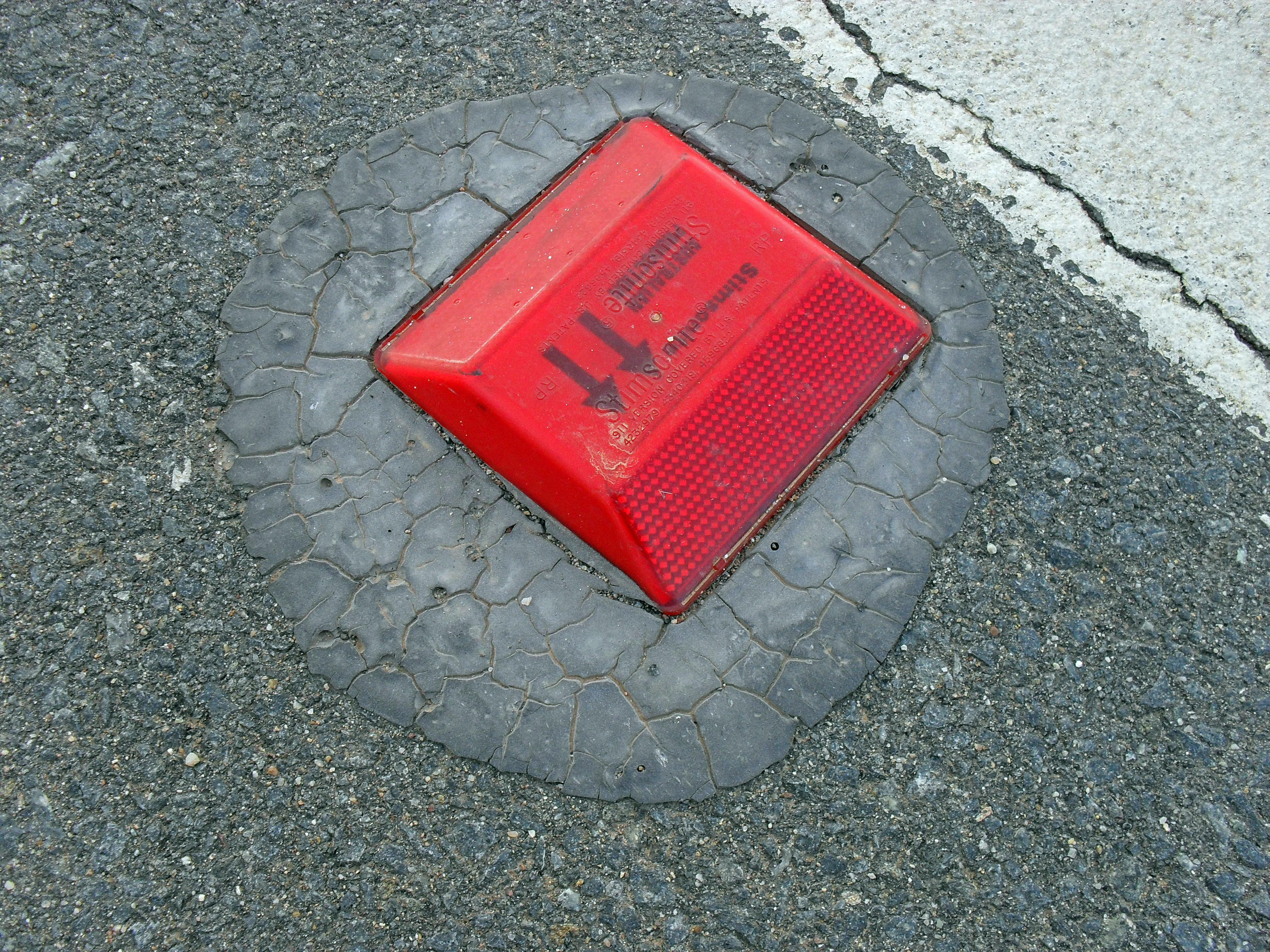 Red raised pavement marker photographed in Australia.